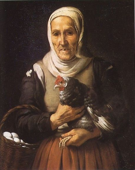 Murillo vieillefemmetenantpoule-munich